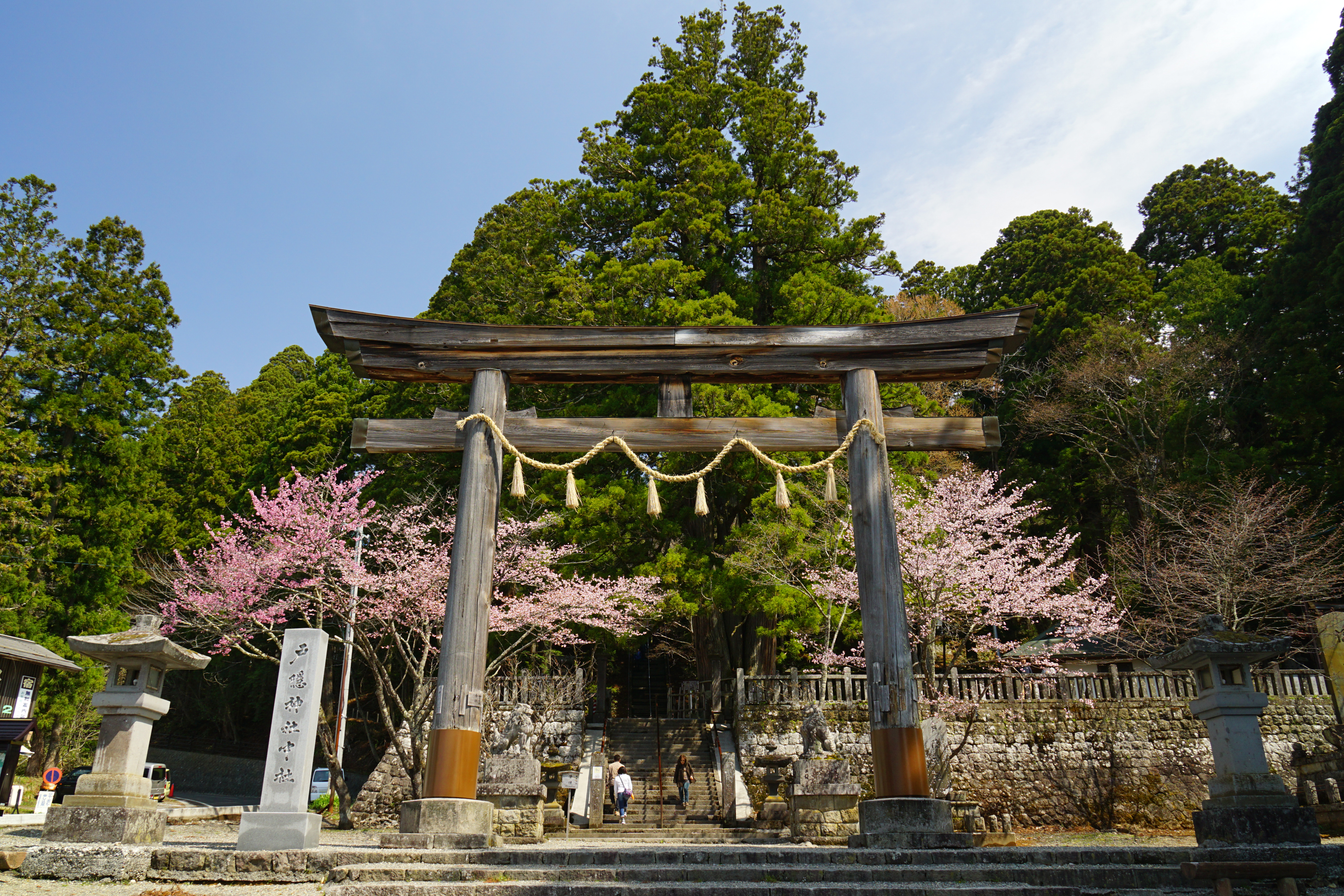 Togakushi Shrine Chū-sha in Nagano, Nagano prefecture, Japan.